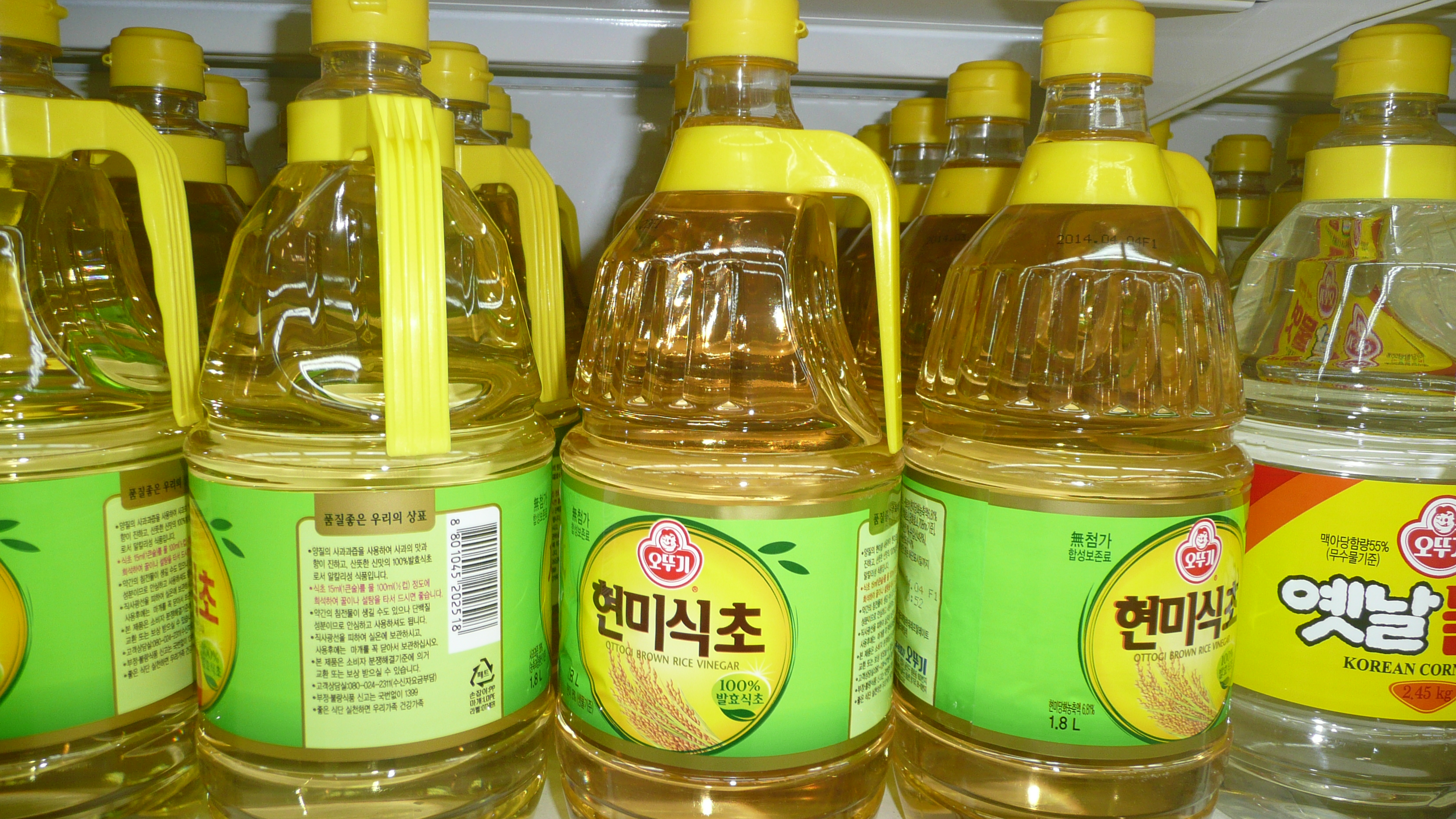 Korean Rice Vinegar, in a shop in Busan, South Korea